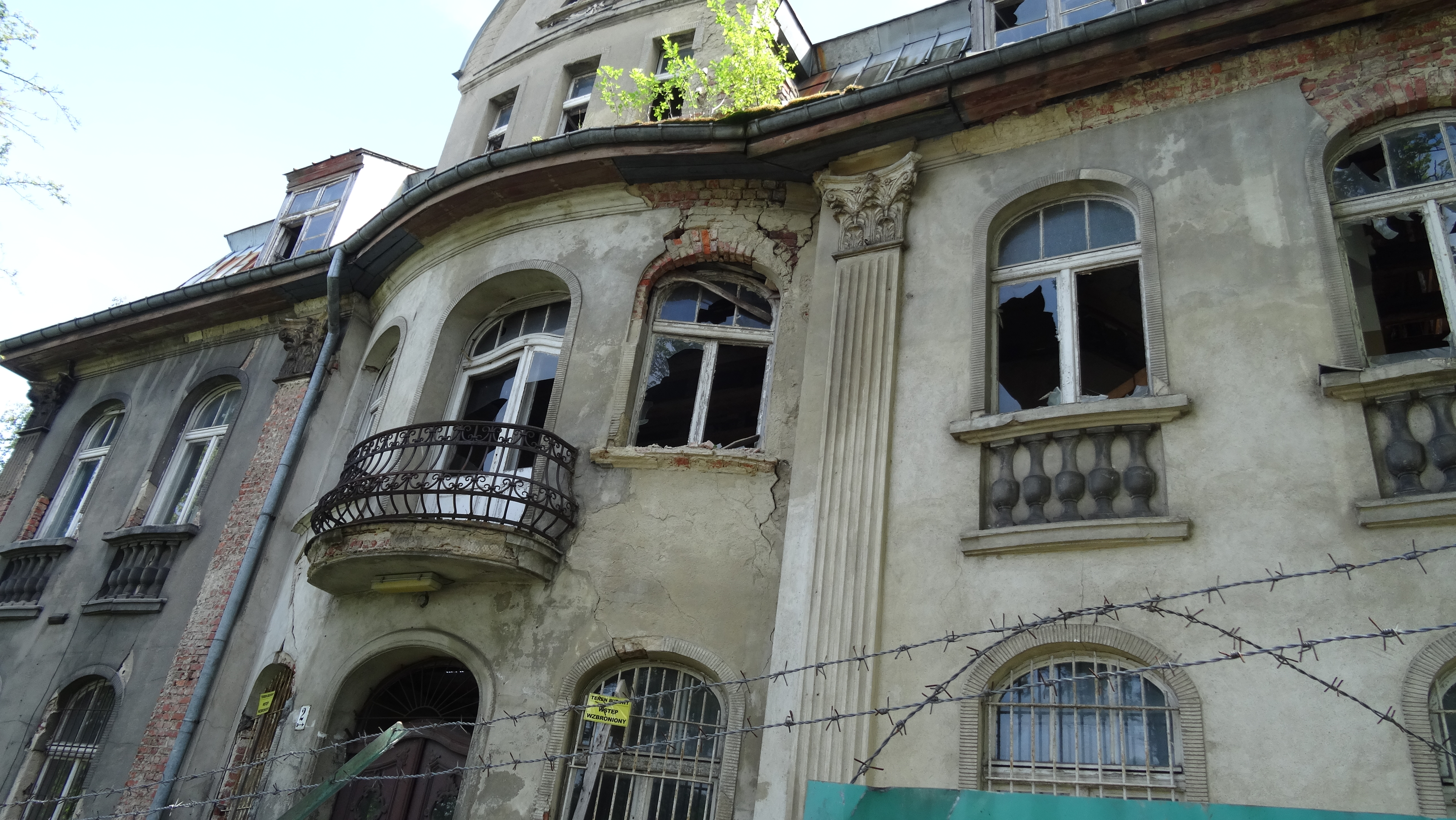 Orzeszkowej 2 Gdansk, front